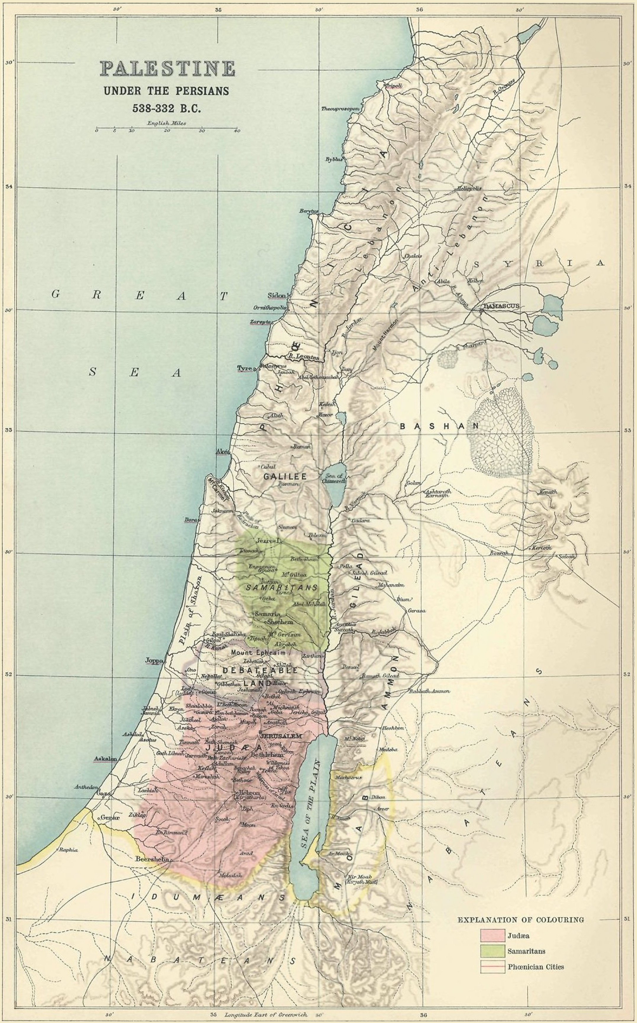 Palestine under the Persians; Atlas of the Historical Geography of the Holy Land by George Adam Smith in 1915. Showing Judea as pink and Samaria as green